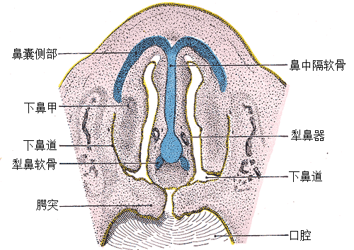 Frontal section of nasal cavities of a human embryo 28 mm. long. (Kollmann.)